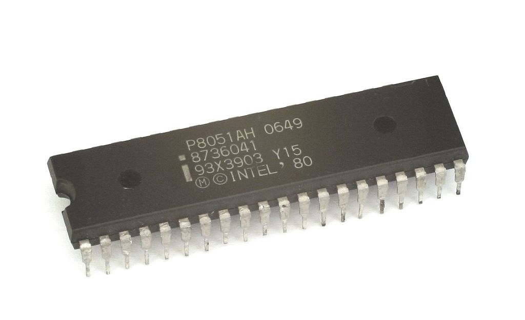 Here is the picture of the look of 8051 microcontroller